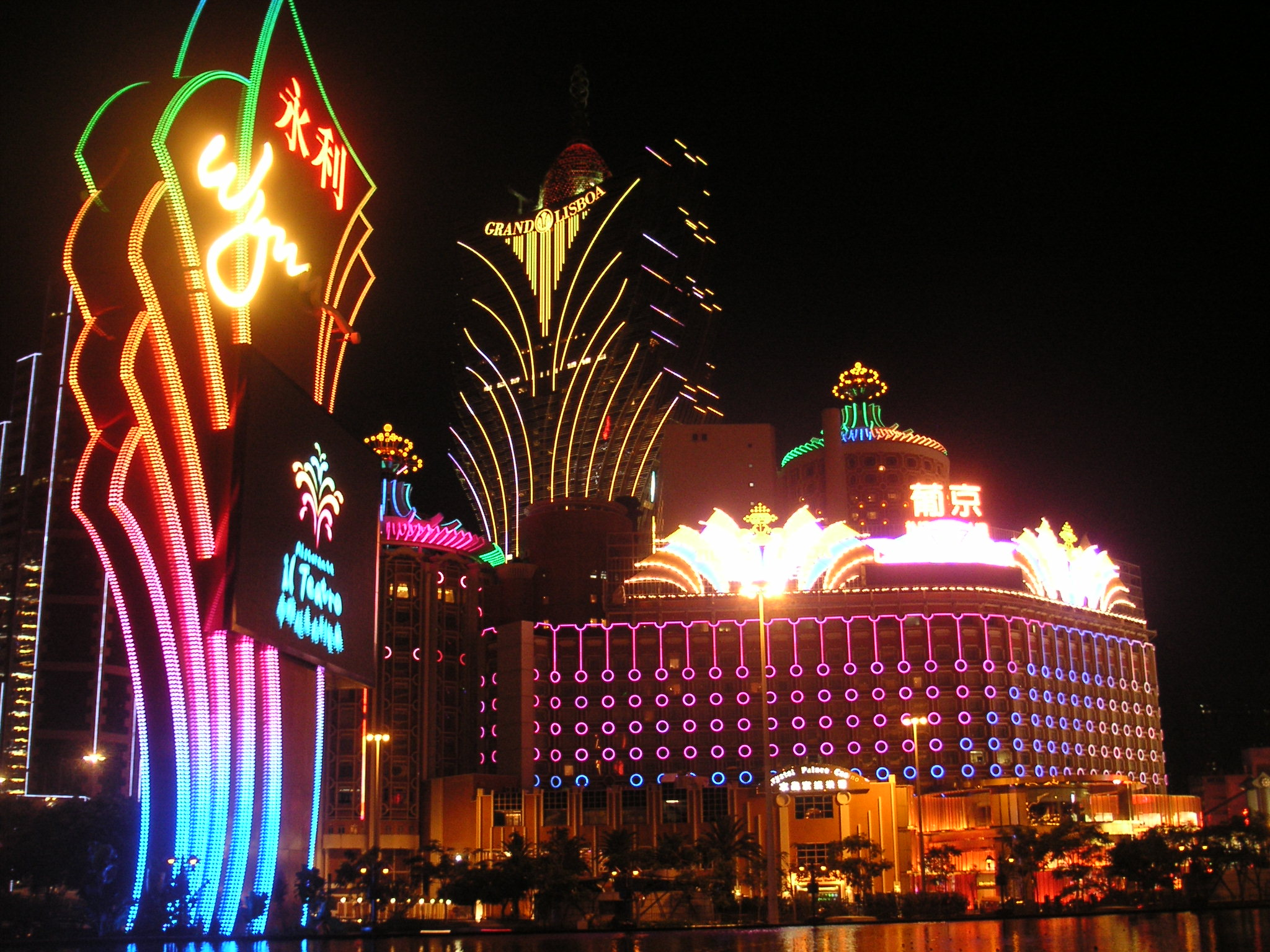 Casinos in Macau.